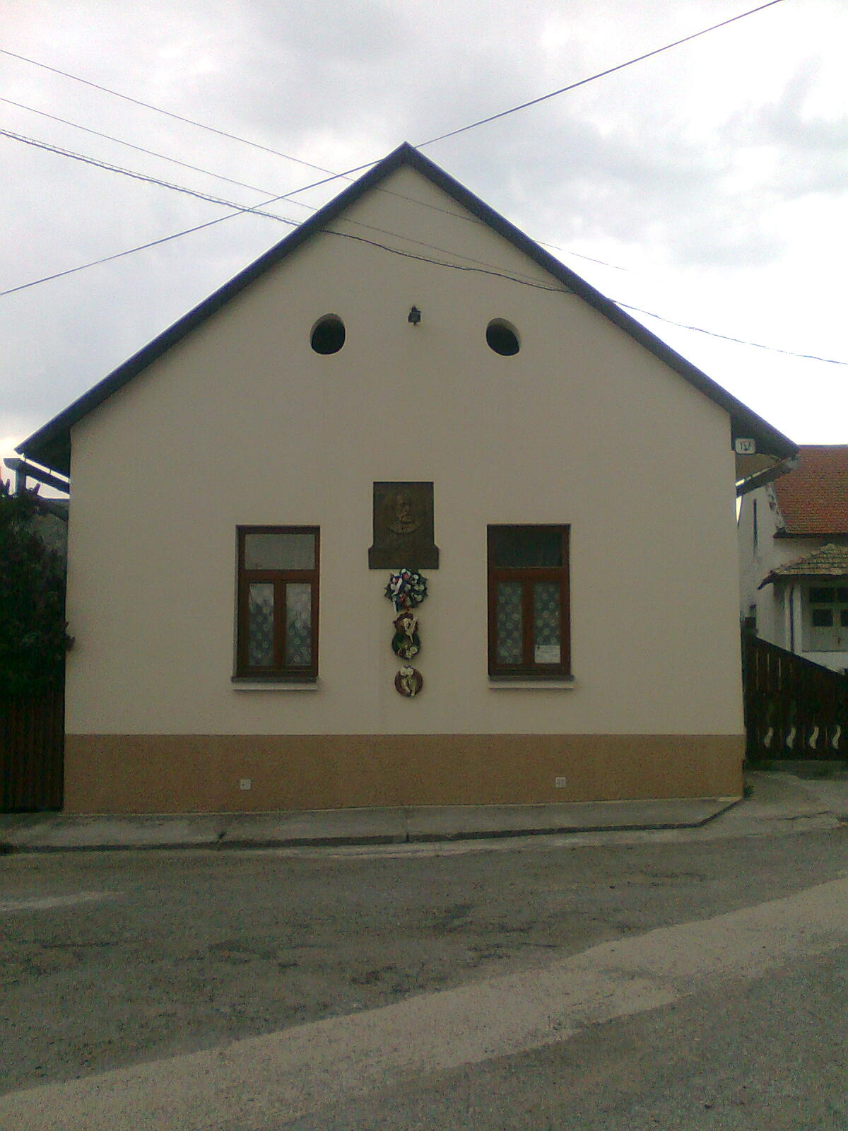 Pavol Dobšinský birth house in Slovakia, Slavošovce